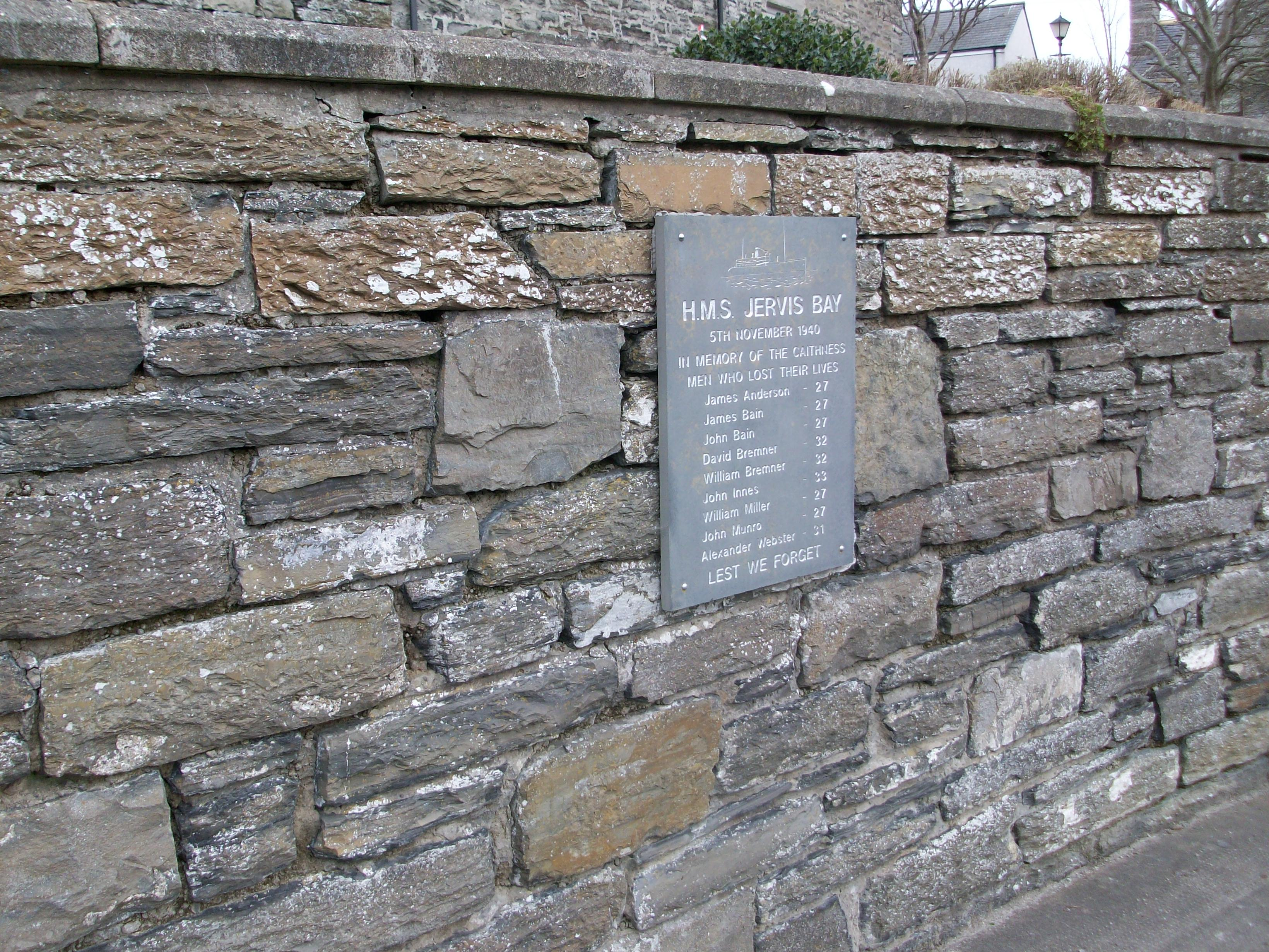 A photograph of the plaque in Wick to the sailors of Caithness who died in the sinking of the HMS Jervis Bay